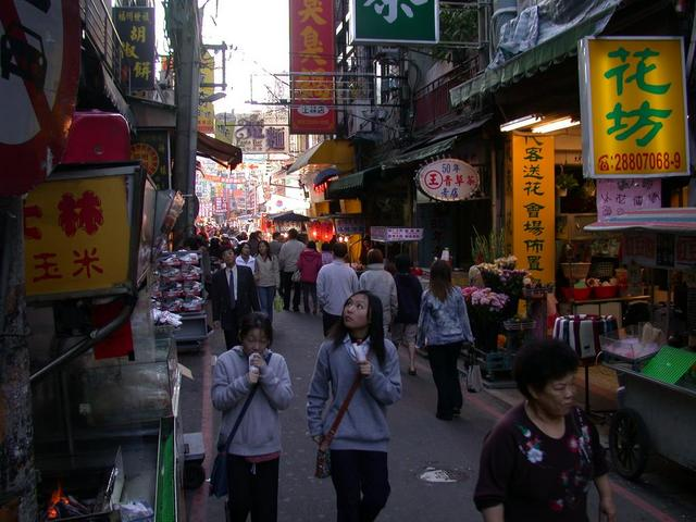 At one edge of the Shilin night market at the beginning of the evening. This image was photographed by Philo Vivero and is placed in GFDL to help out Wikipedia.